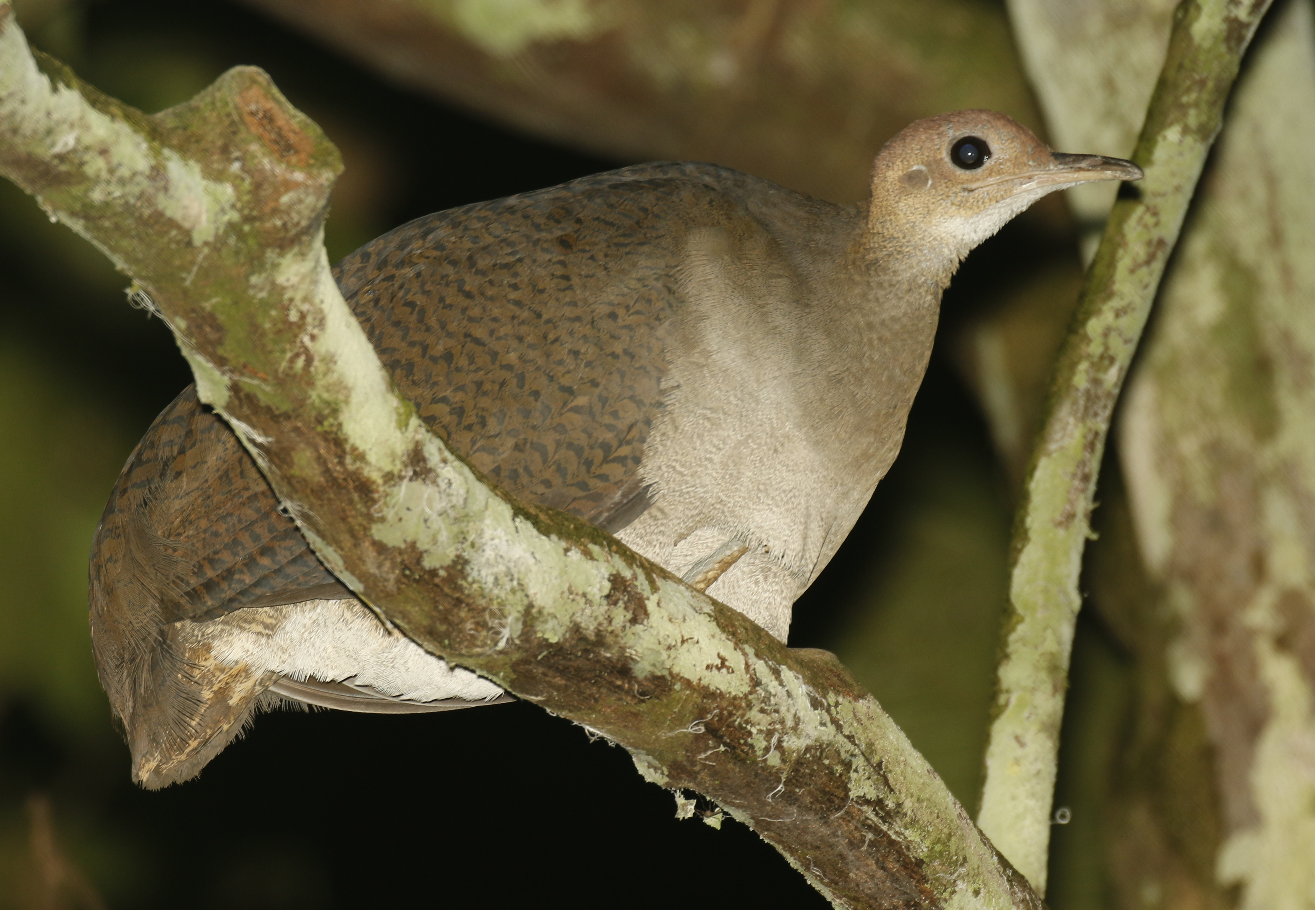 Sani Lodge - Ecuador